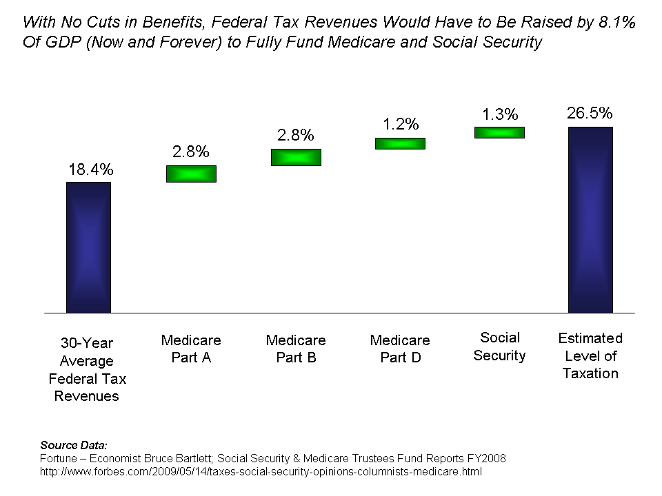 Estimated Funding Gaps in Medicare and Social Security Explanation Economist Bruce Bartlett wrote in Forbes in May 2009: "To summarize, we see that taxpayers are on the hook for Social Security and Medicare by these amounts: Social Security, 1.3% of GDP; Medicare part A, 2.8% of GDP; Medicare part B, 2.8% of GDP; and Medicare part D, 1.2% of GDP. This adds up to 8.1% of GDP." He cited and linked various reports from the Social Security and Medicare Trustees in the article and explained how these gaps represent the present value of program deficits in perpetuity. He also wrote that federal personal income tax revenues are about 10% historically, so if this 8.1% were applied just to income taxes, that would be an 81% tax increase. The Heritage Foundation estimates that the 30 year historical average federal tax collections were 18.4% of GDP.